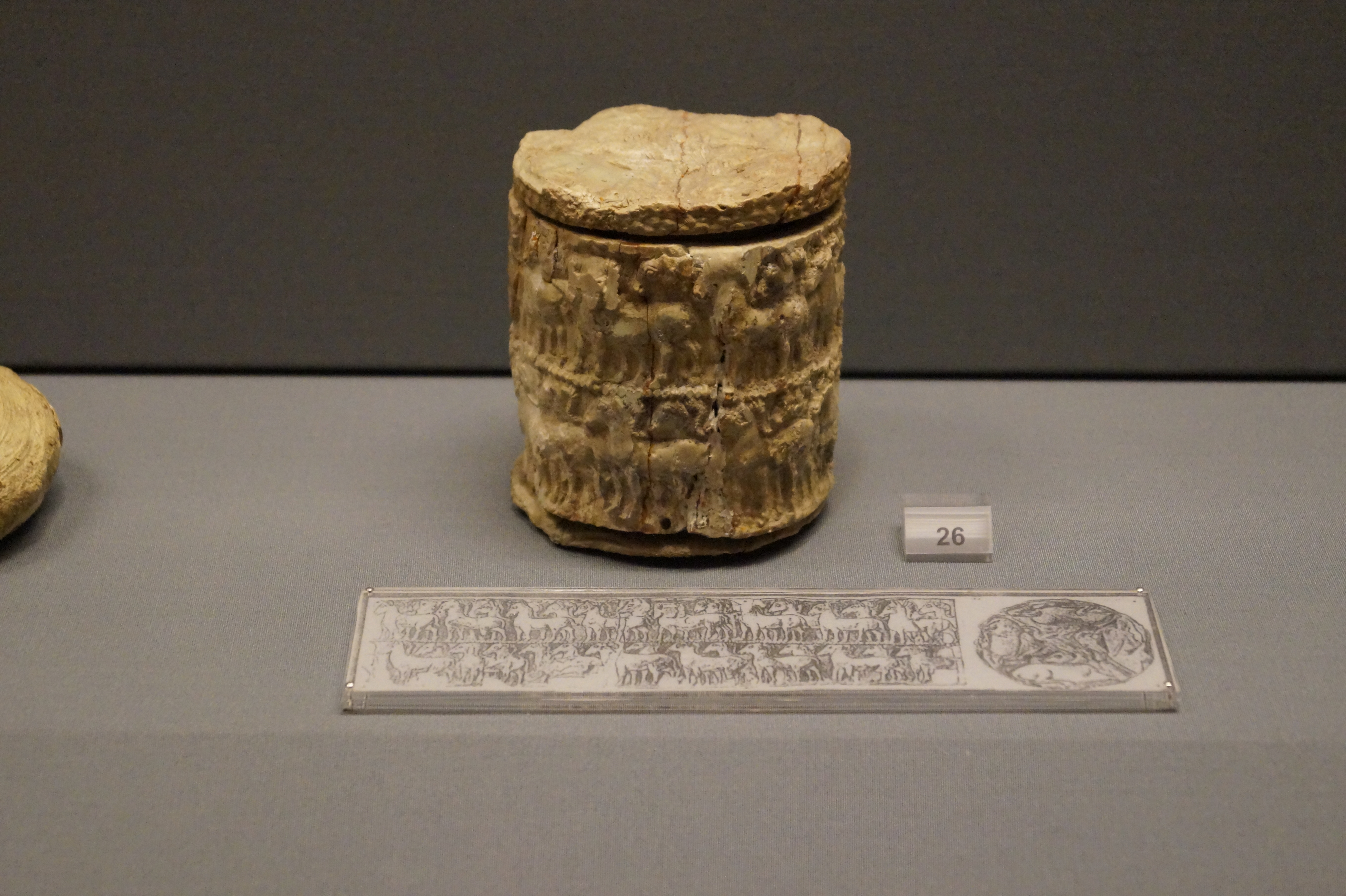 National Archaeological Museum of Athens: Ivory pyxis from tholos tomb of Menidi.